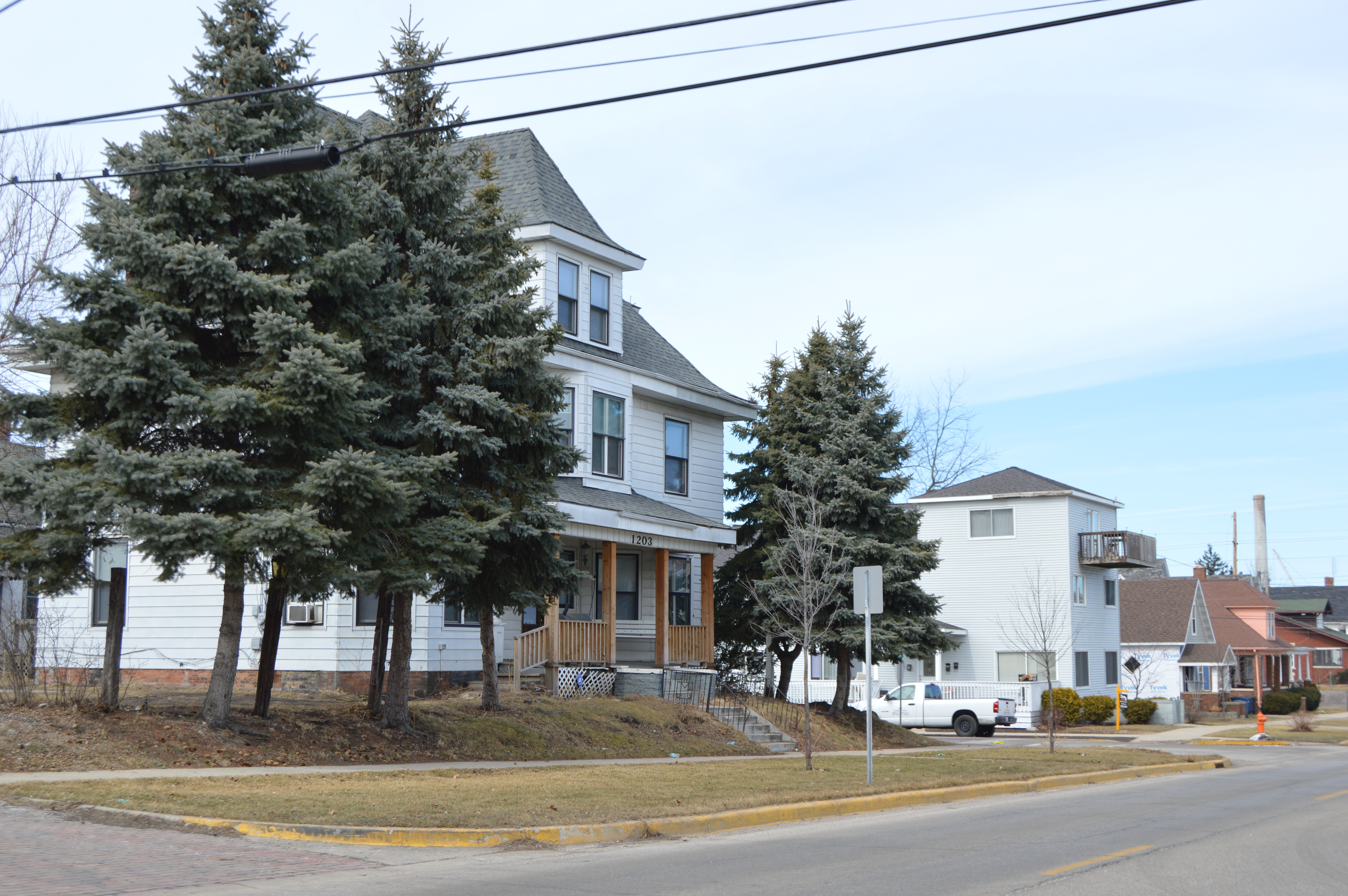 Houses on Washington Street north of the Green Street intersection in Michigan City, Indiana, United States. This neighborhood is part of the Haskell and Barker Historic District, a historic district that is listed on the National Register of Historic Places.